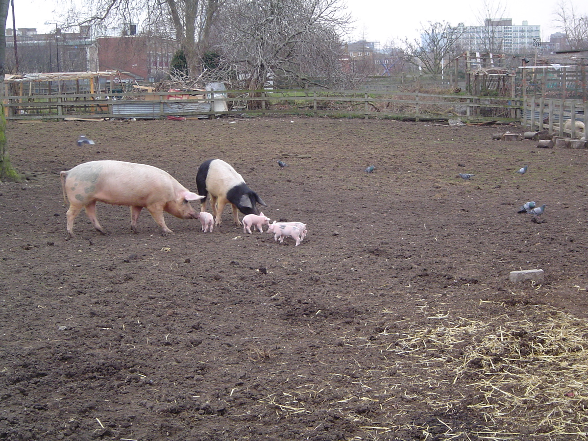 Newly born piglets at Stepping Stones (City) Farm, London, UK